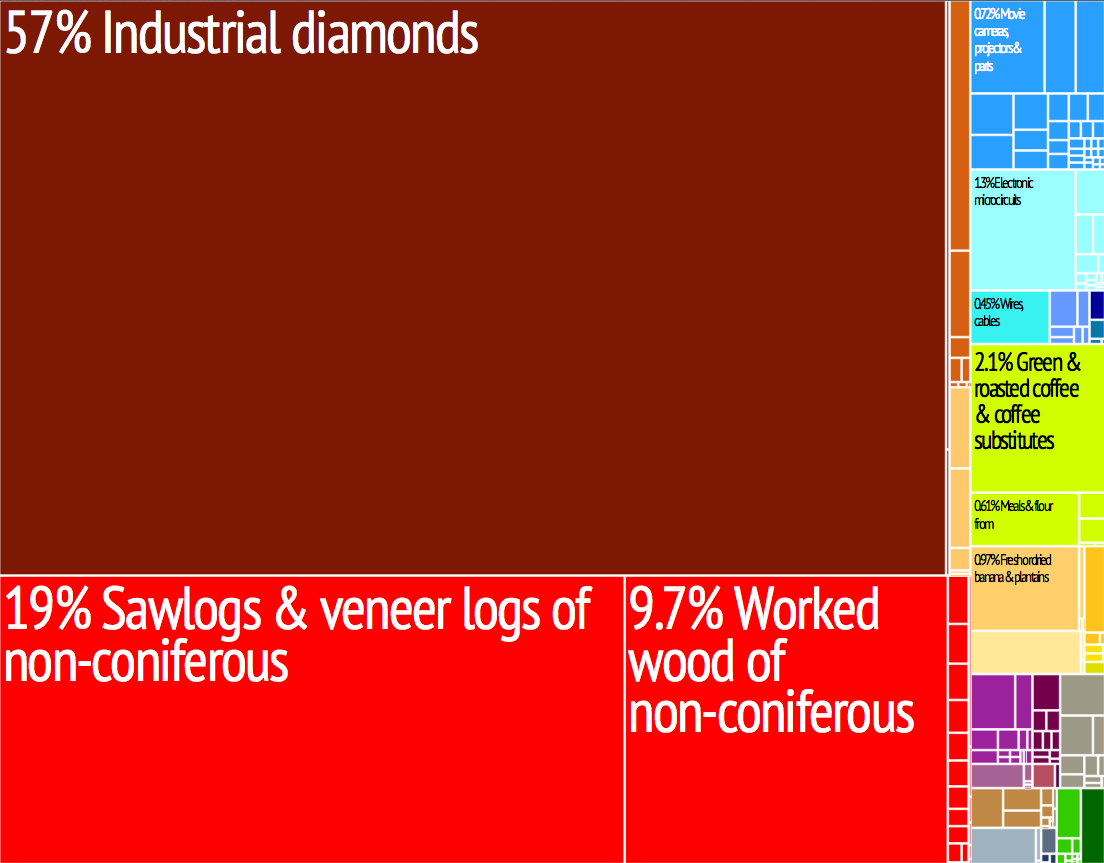 Export Trading Treemap. From MIT/Harvard Atlas of Economic Complexity